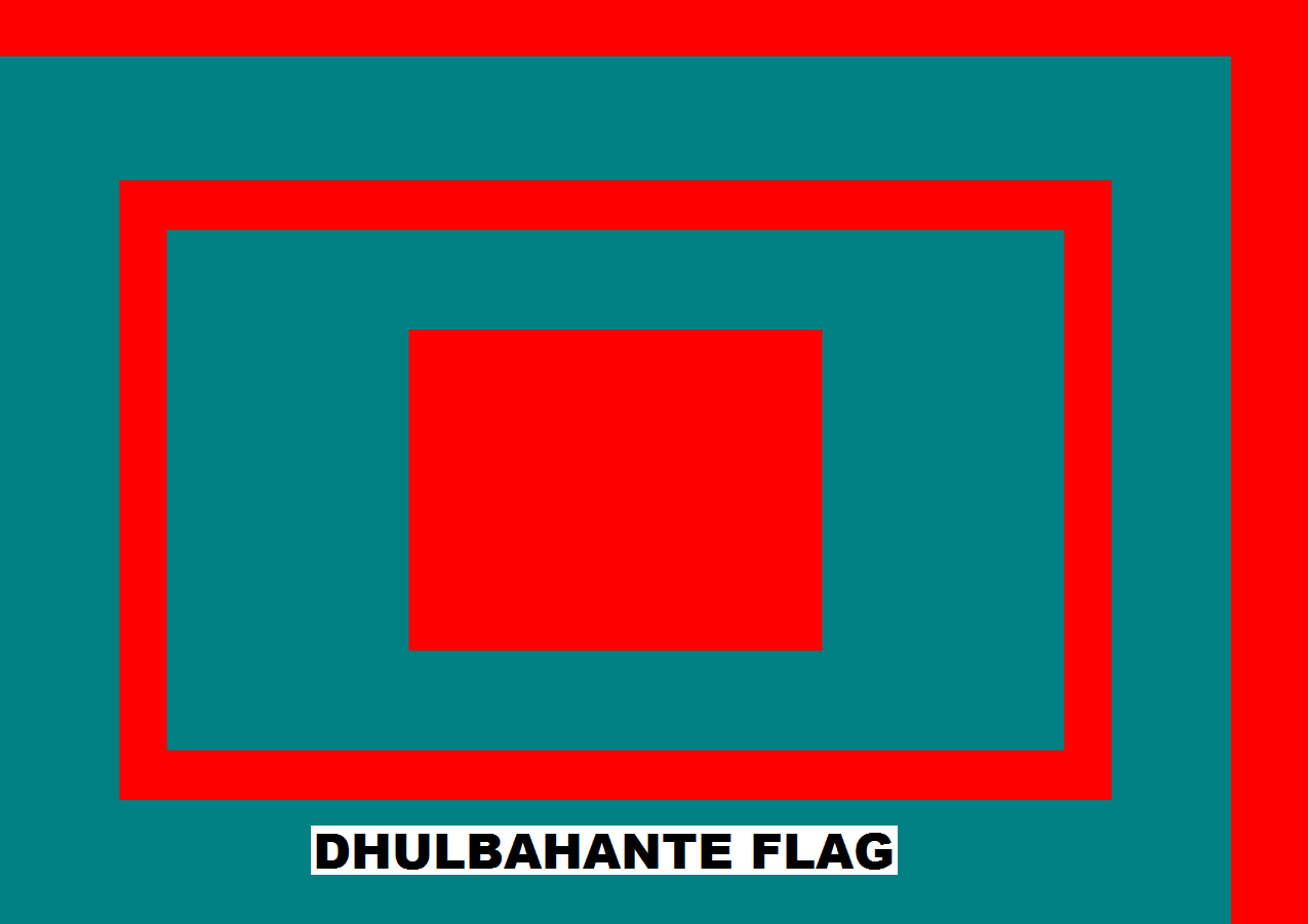 The dhulbahante ethnic flag